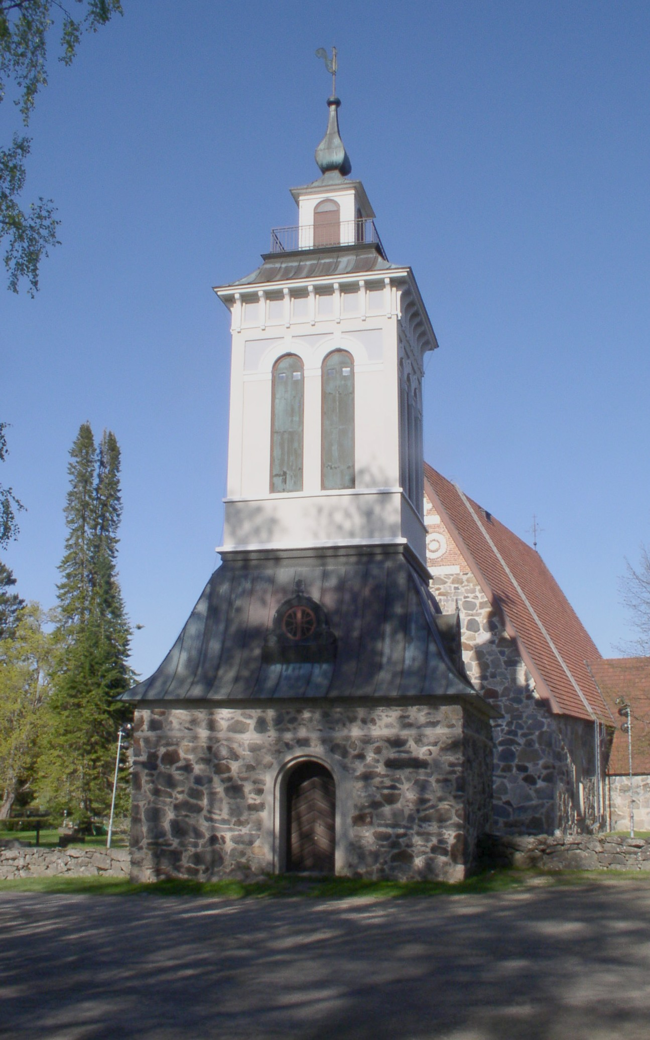 Bell tower of the Sääksmäki church in Valkeakoski, Finland.